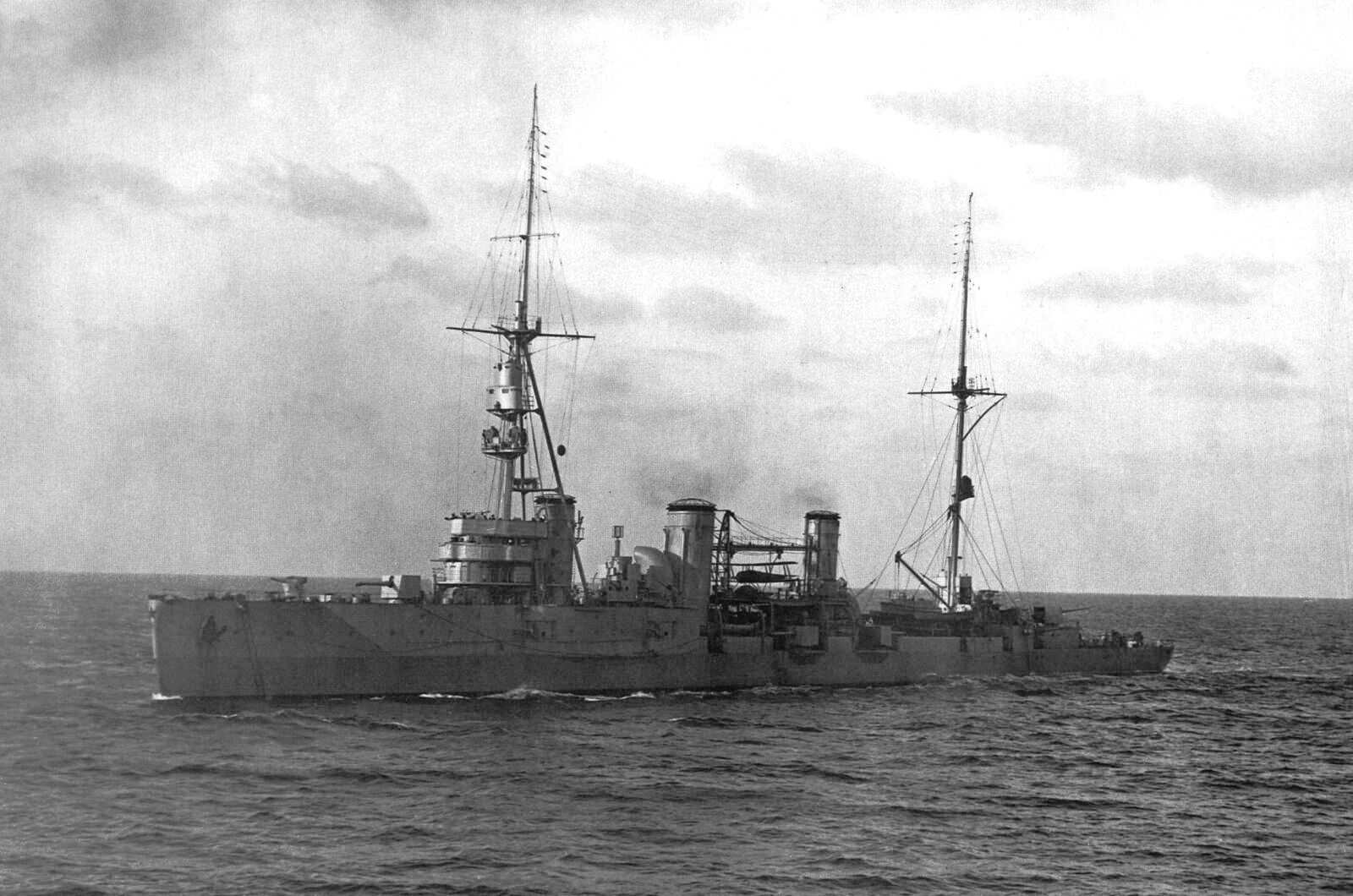 Soviet light cruiser Chervona Ukraina, 1927-1930 (visible MU-1 /Avro 504 floatplane with initial form of crane, 75 mm Meller AA guns).